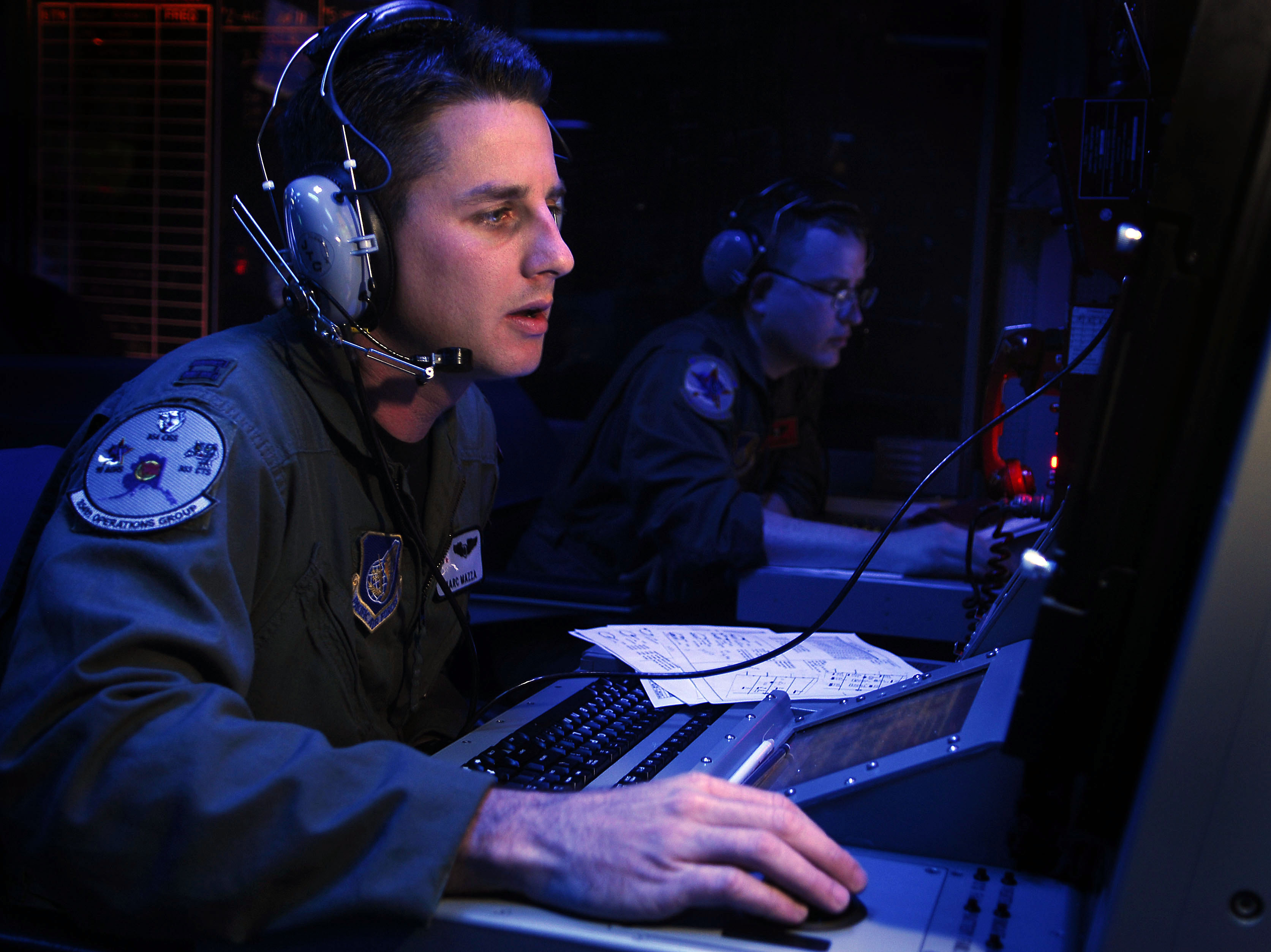 GULF OF ALASKA (June 17, 2009) U.S. Air Force Capt. Marc Mazza, left, from Pittsburgh, Pa., and Capt. Nate Carrell, from Wasillia, Alaska, sit at ship's self defense system modules and act as aggressor barons during a simulated combat scenario in the combat direction center aboard the aircraft carrier USS John C. Stennis (CVN 74). An aggressor baron is responsible for directing opponent aircraft during training scenarios. Air Force personnel are aboard John C. Stennis for Exercise Northern Edge, a joint exercise focusing on detecting and tracking units at sea, in the air and on land. (U.S. Navy photo by Mass Communication Specialist 3rd Class Josue L. Escobosa/Released)